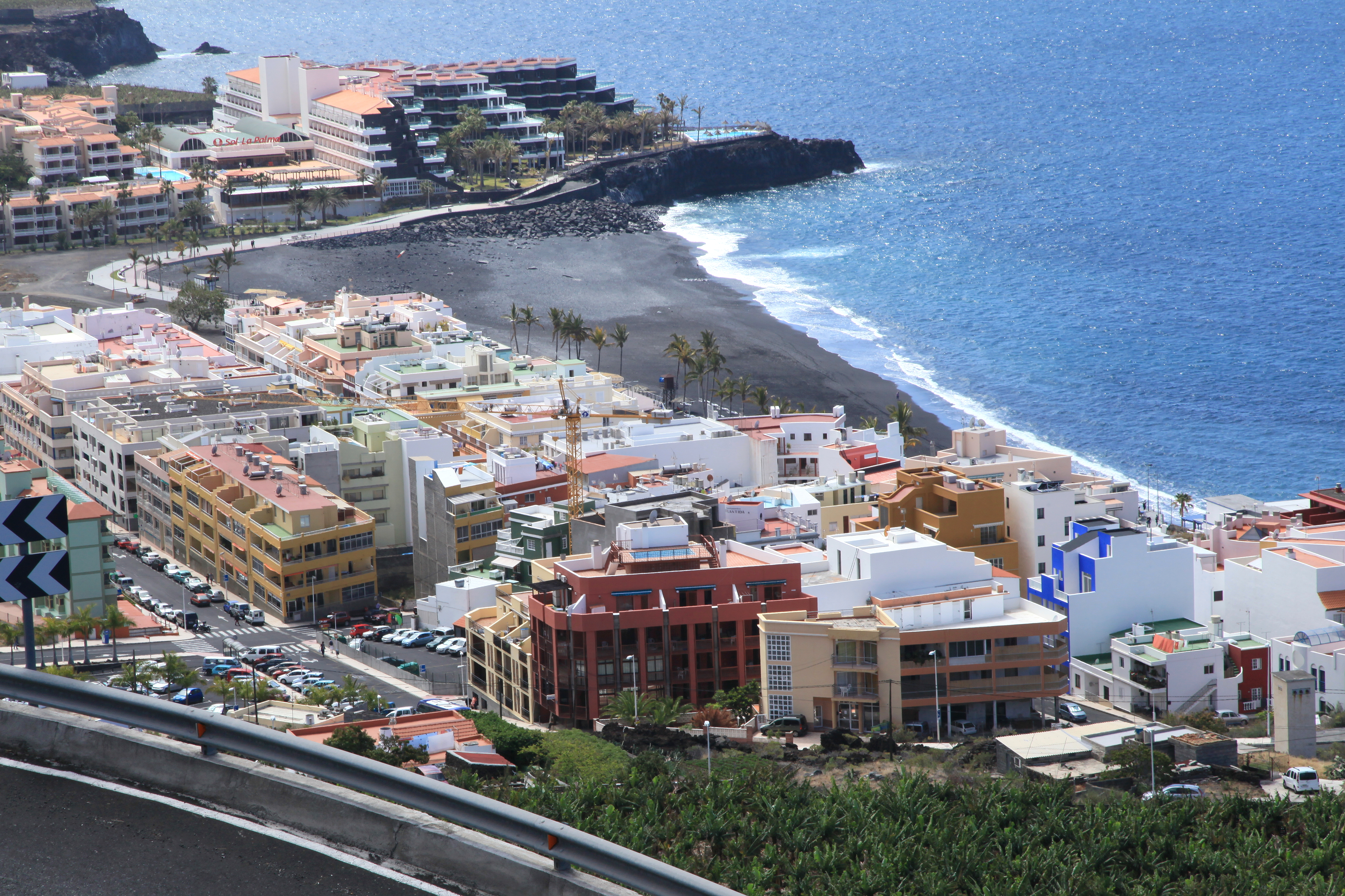 View from Mirador de Puerto Naos down to Puerto Naos and hotel Sol La Palma, Los Llanos de Aridane, La Palma, Canary Island, Spain